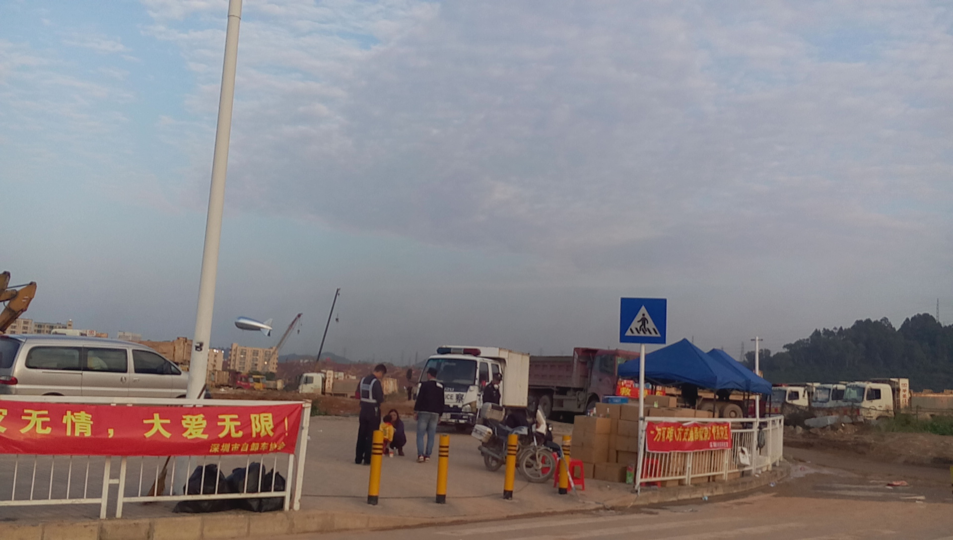 Taken Christmas Day 2015 in Guangming Shenzhen, after a devastating landslide. Photograph taken towards to Landslide but can't get closer